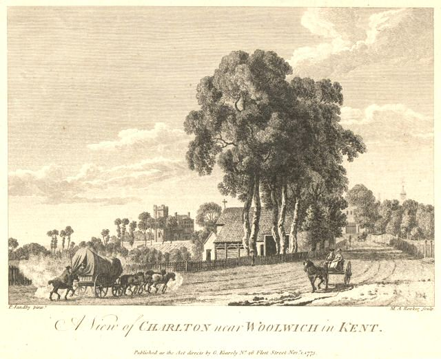 A drawing of Charlton, London, from 1775.